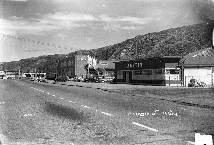 Photograph showing McKenzie Street, Petone, and the Austin Motor factory buildings just north of the Petone Overbridge. 1950s Hutt City Libraries Local ref. no. 21.Produced by New Zealand Micrographic Services Ltd August 2006 Equipment: Creo iQsmart3 Software Used: Adobe Photoshop CS2 9.0 This file is property of Hutt City Library